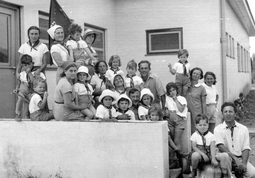 Ein Hahoresh, Events in Israel